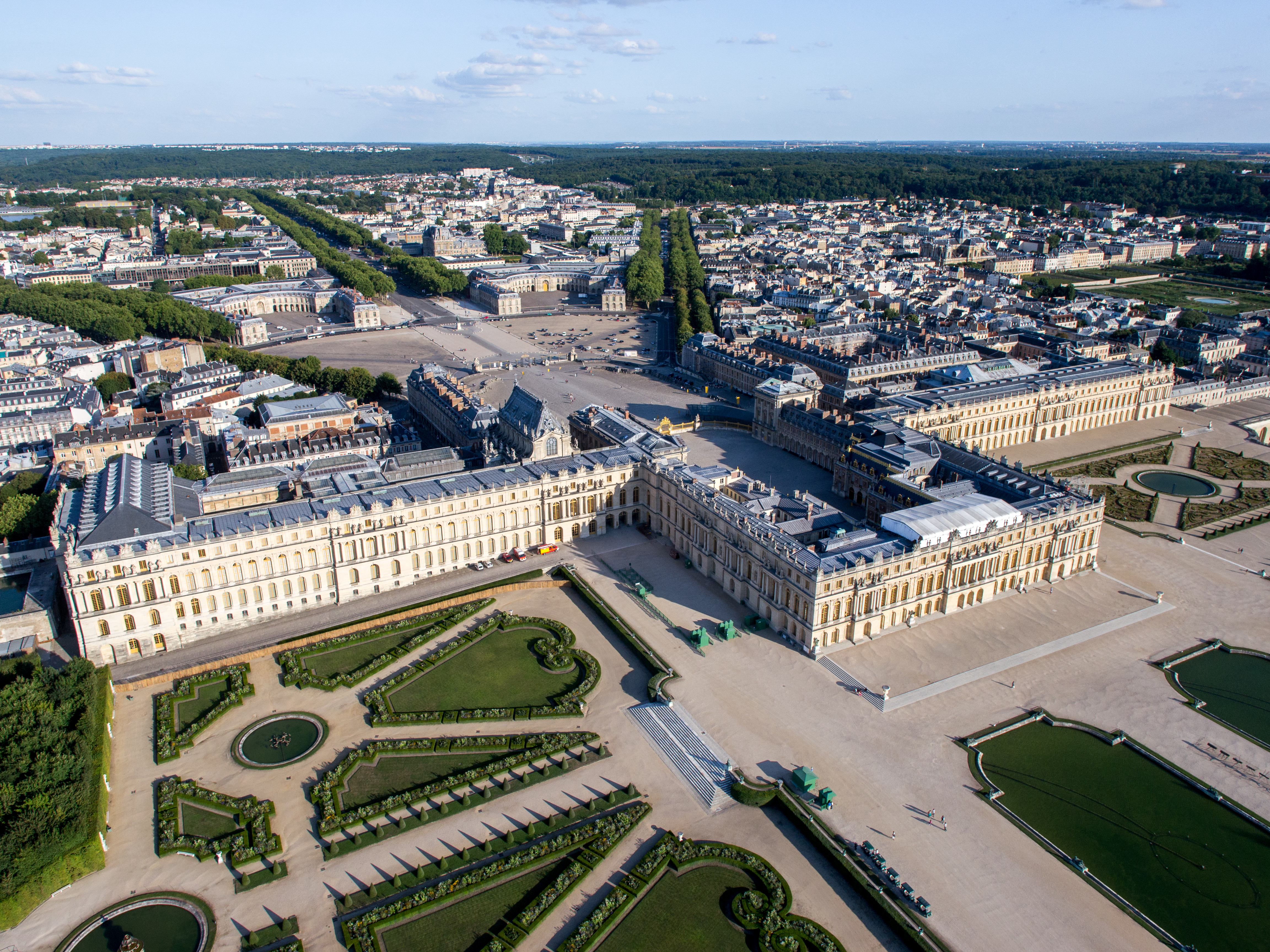 Aerial view of the Domain of Versailles, France